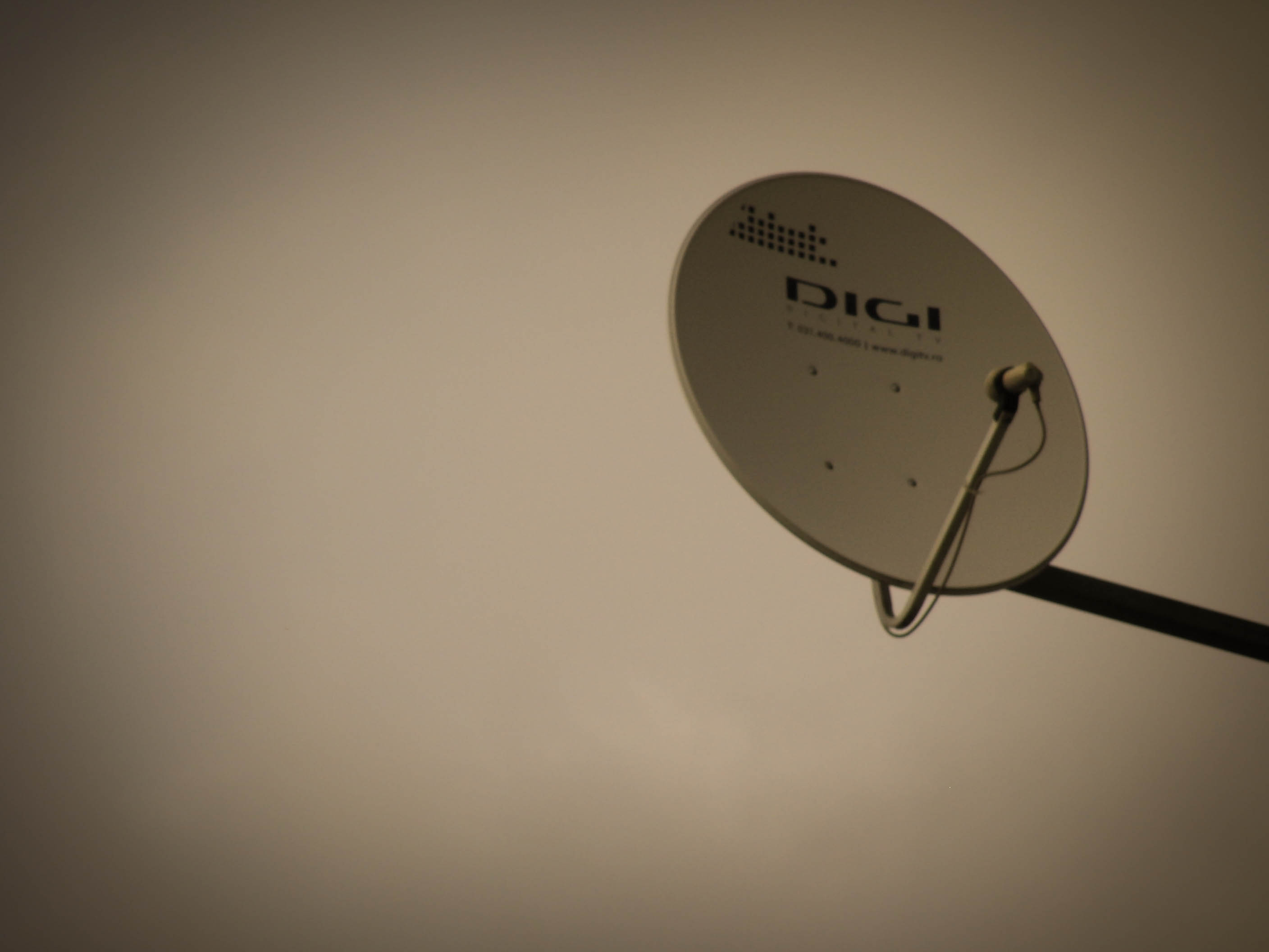 antenna for receiving the satellite television service DigiTV.Satelit. RCS & RDS